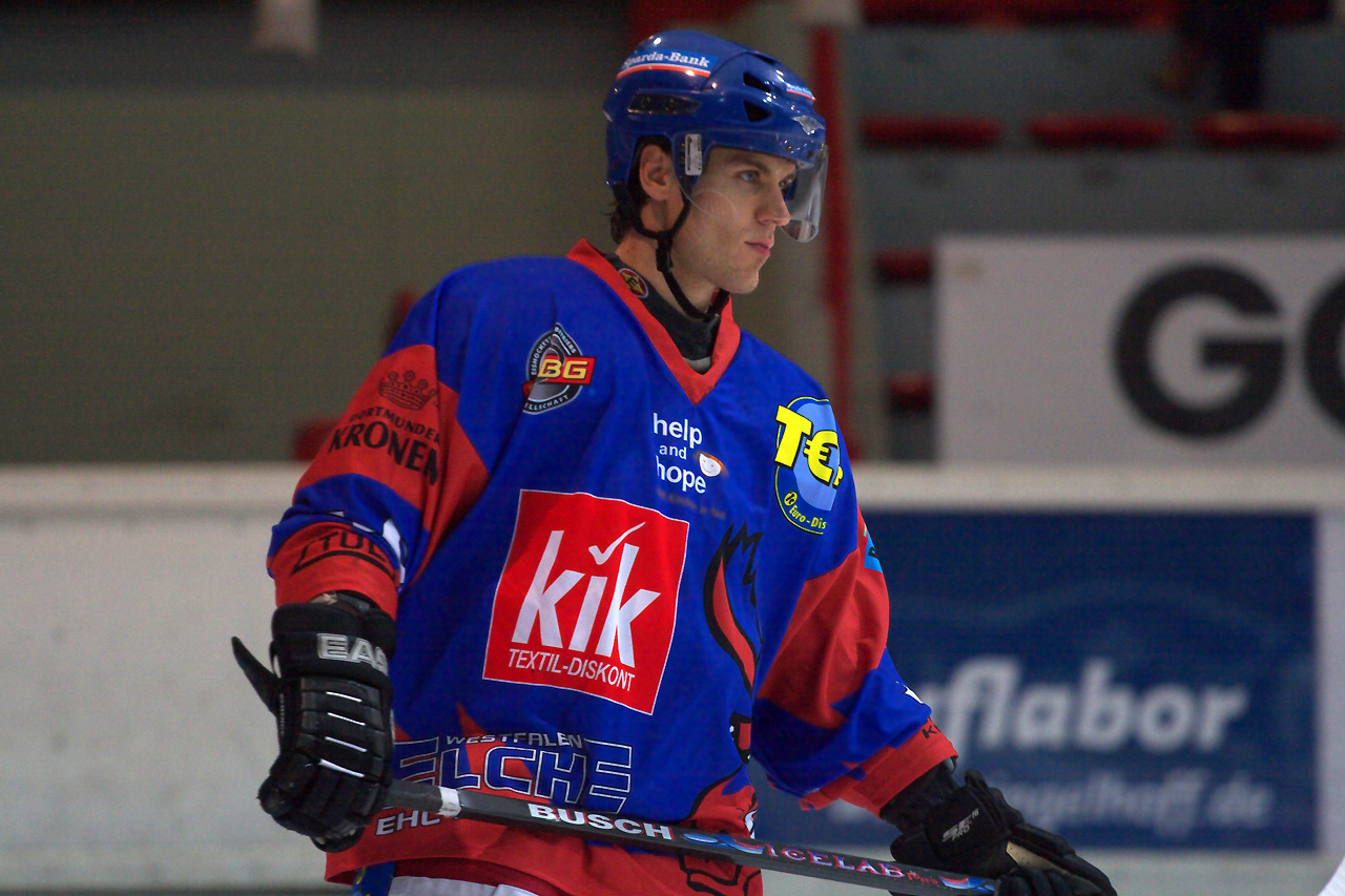 Player of the icehockeyclub EHC Dortmund - #19 - Vitali Stähle